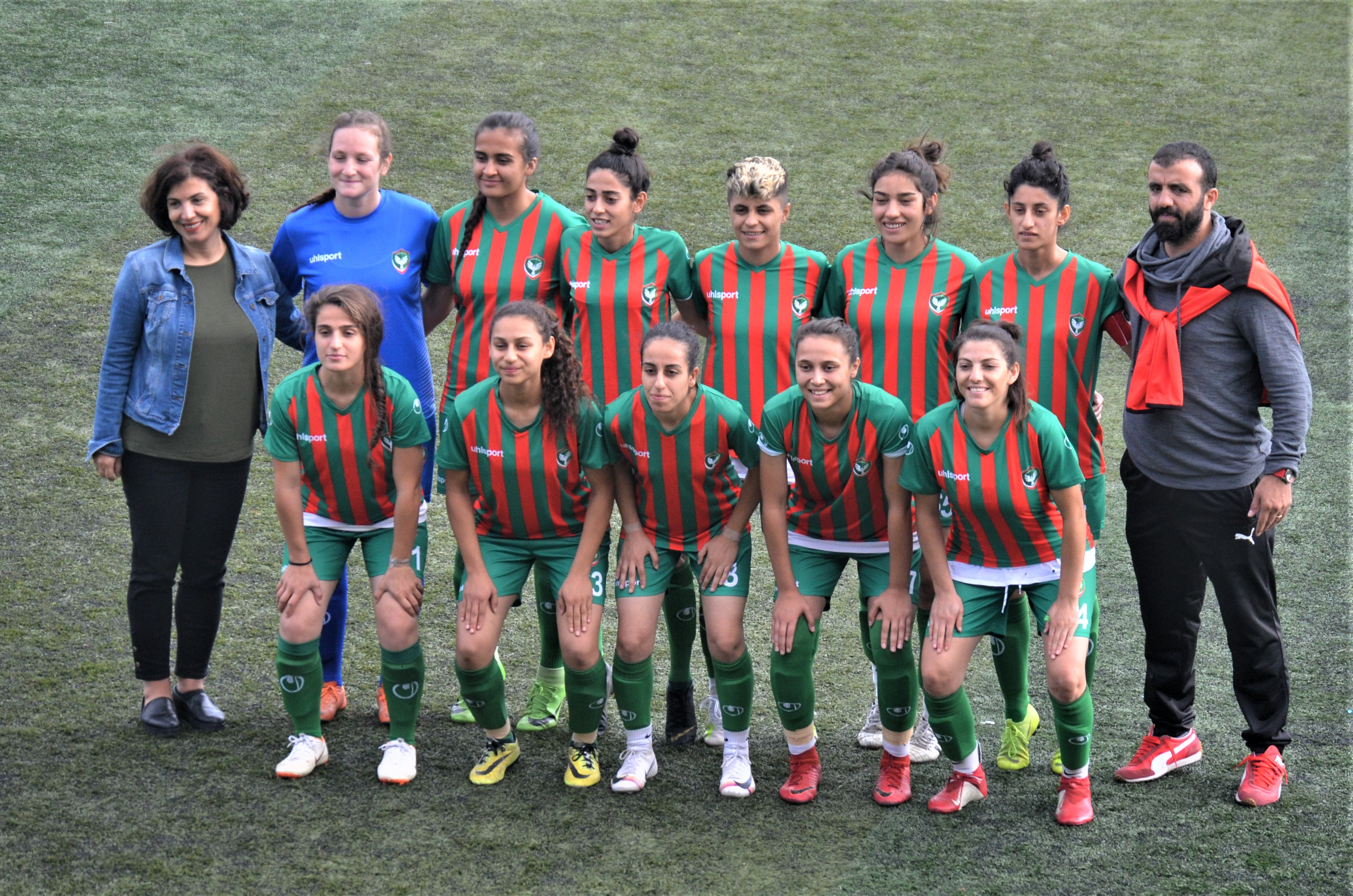 Amed S.K. team in the 2019-20 Turkish Women's First Football League season.